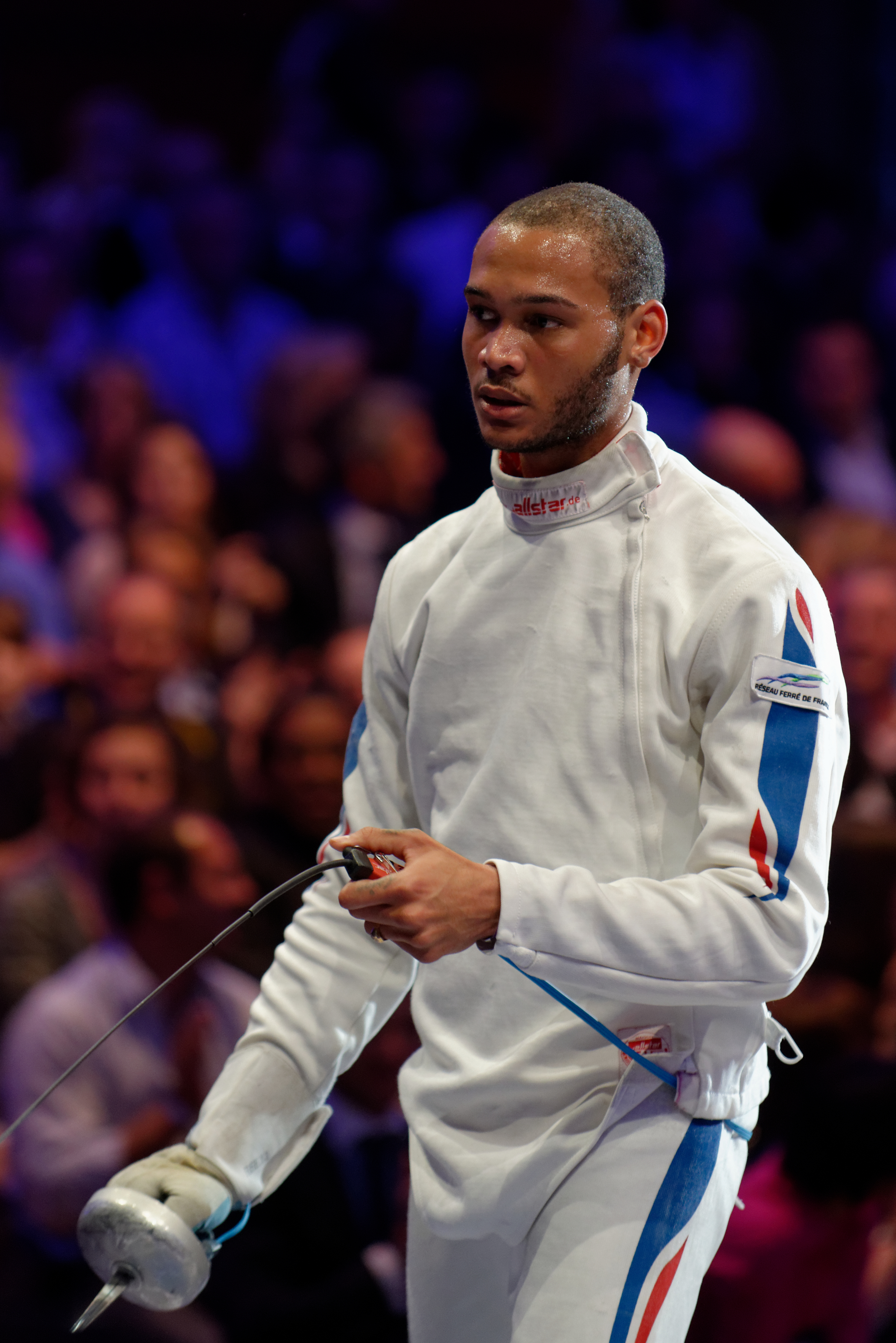 France's Daniel Jerent during his semi-final against Nikolai Novosjolov (R) of Estonia in the Challenge Réseau Ferré de France–Trophée Monal 2013, a men's épée FIE World Cup competition. Louvre Carrousel, Paris.